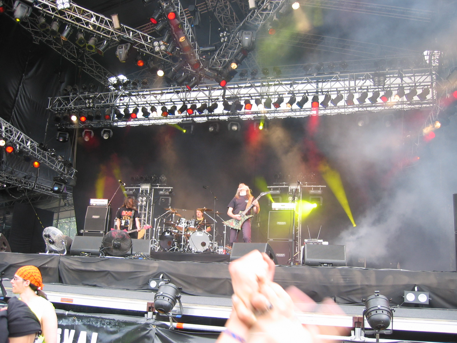 A picture of German thrash metal band Sodom performing at Tuska Open Air Metal Festival 2006. I, Ville Savijärvi, took the picture myself with Canon Digital Ixus 400 camera.